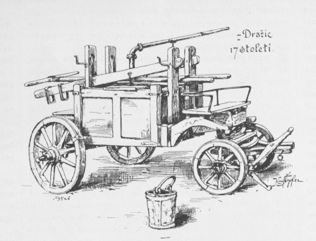 A historical fire engine, originally used in Dražice in the 17th century. From a gallery of firefighting equipment, displayed at the Centennial Exhibition in Prague 1891.